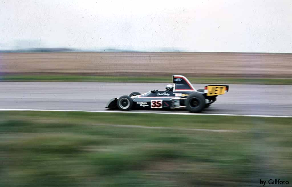 David Purley Silverstone